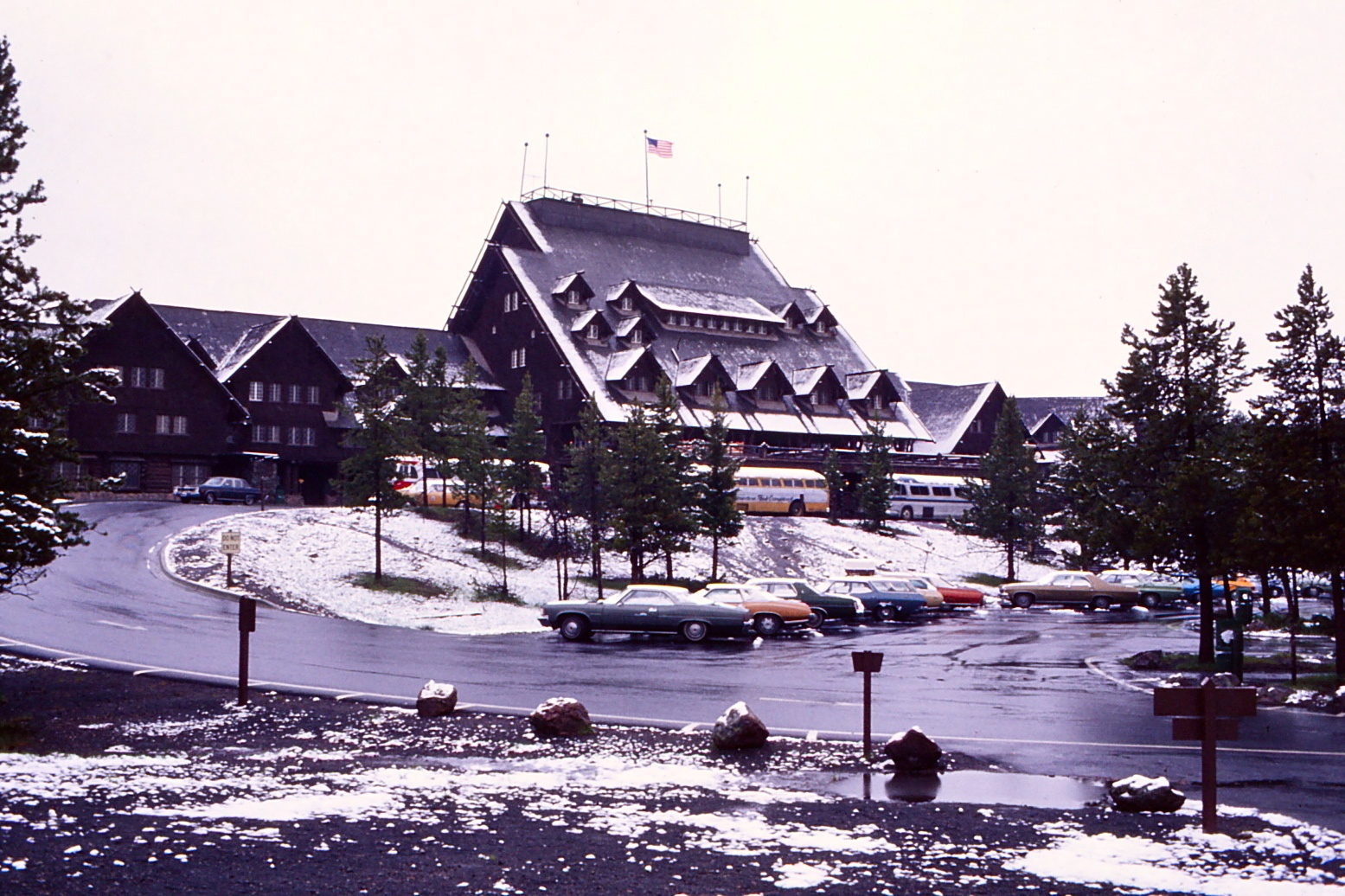 We walked in...asked for two rooms...and were accomodated. Those were the "good old days."